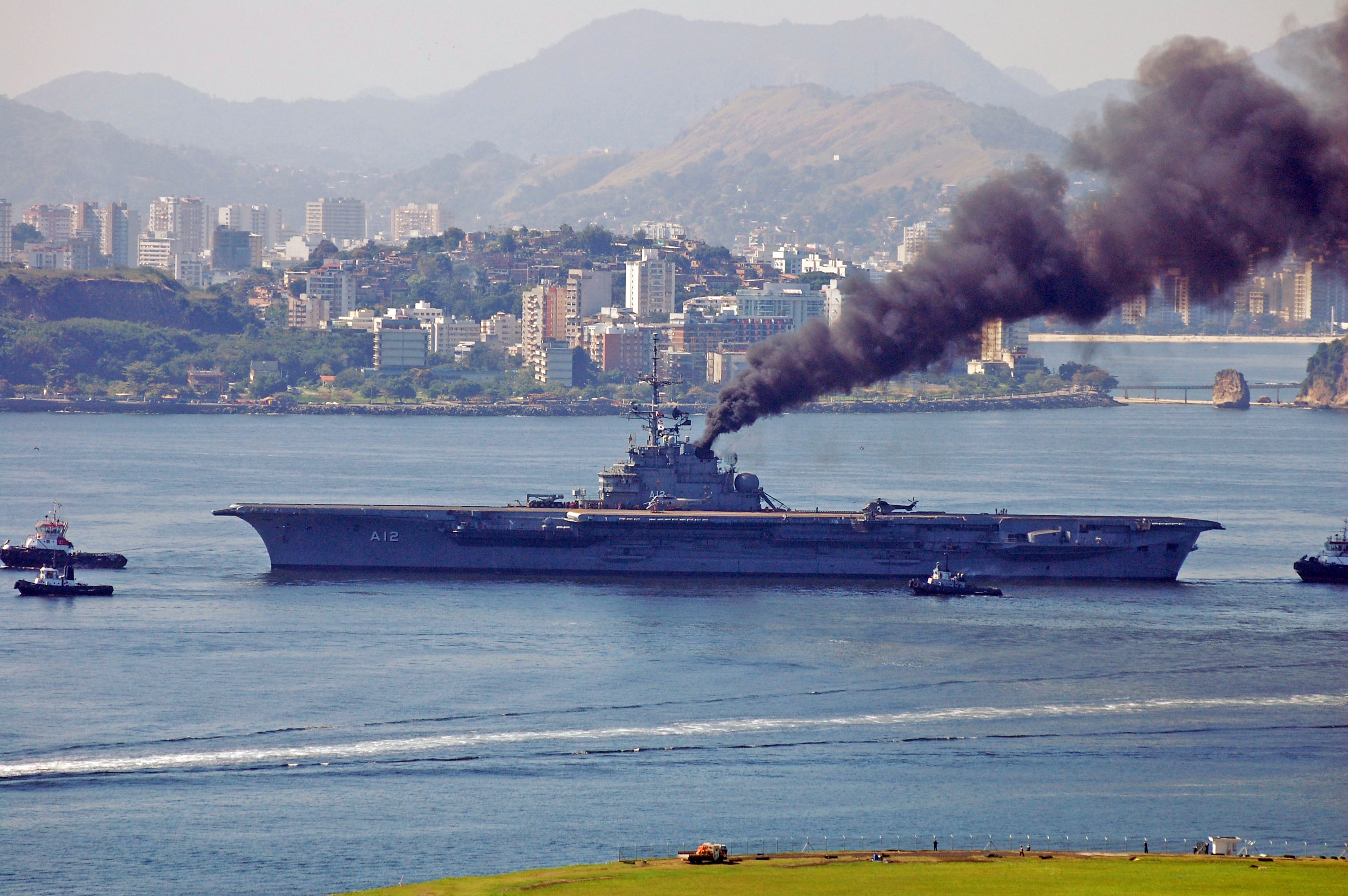 NAe A-12 São Paulo in Rio de Janeiro, Brazil